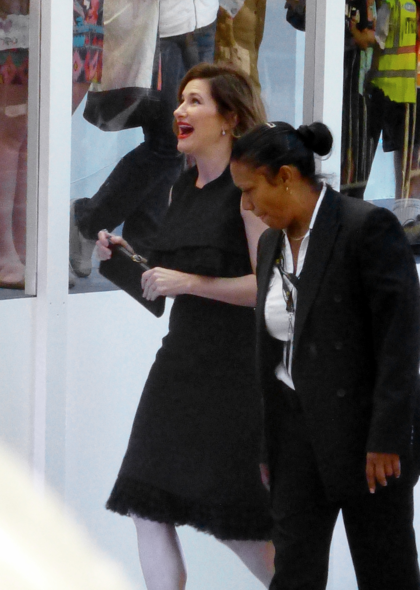 Kathryn Hahn at the premiere of This Is Where I Leave You, 2014 Toronto Film Festival